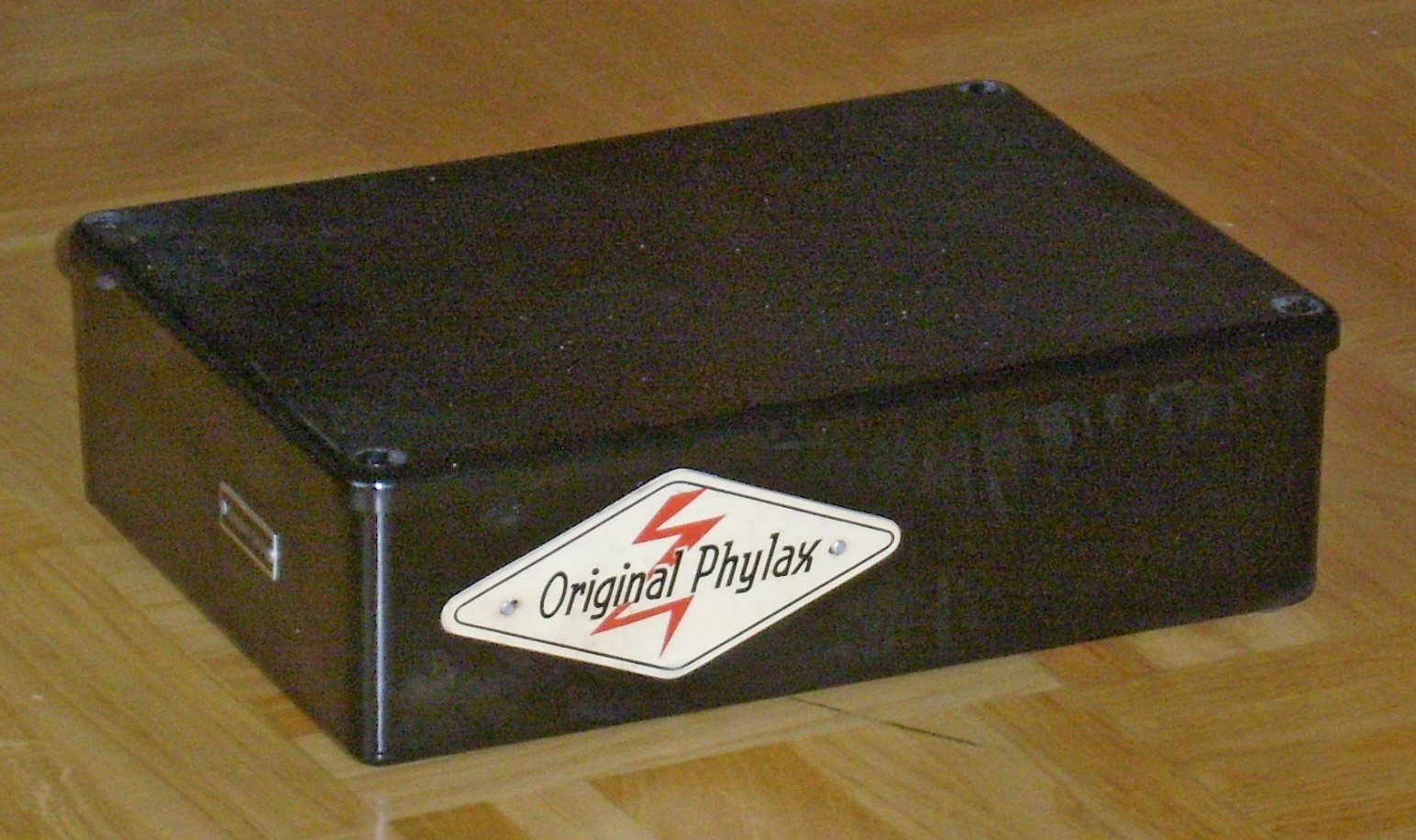 Entstörgerät